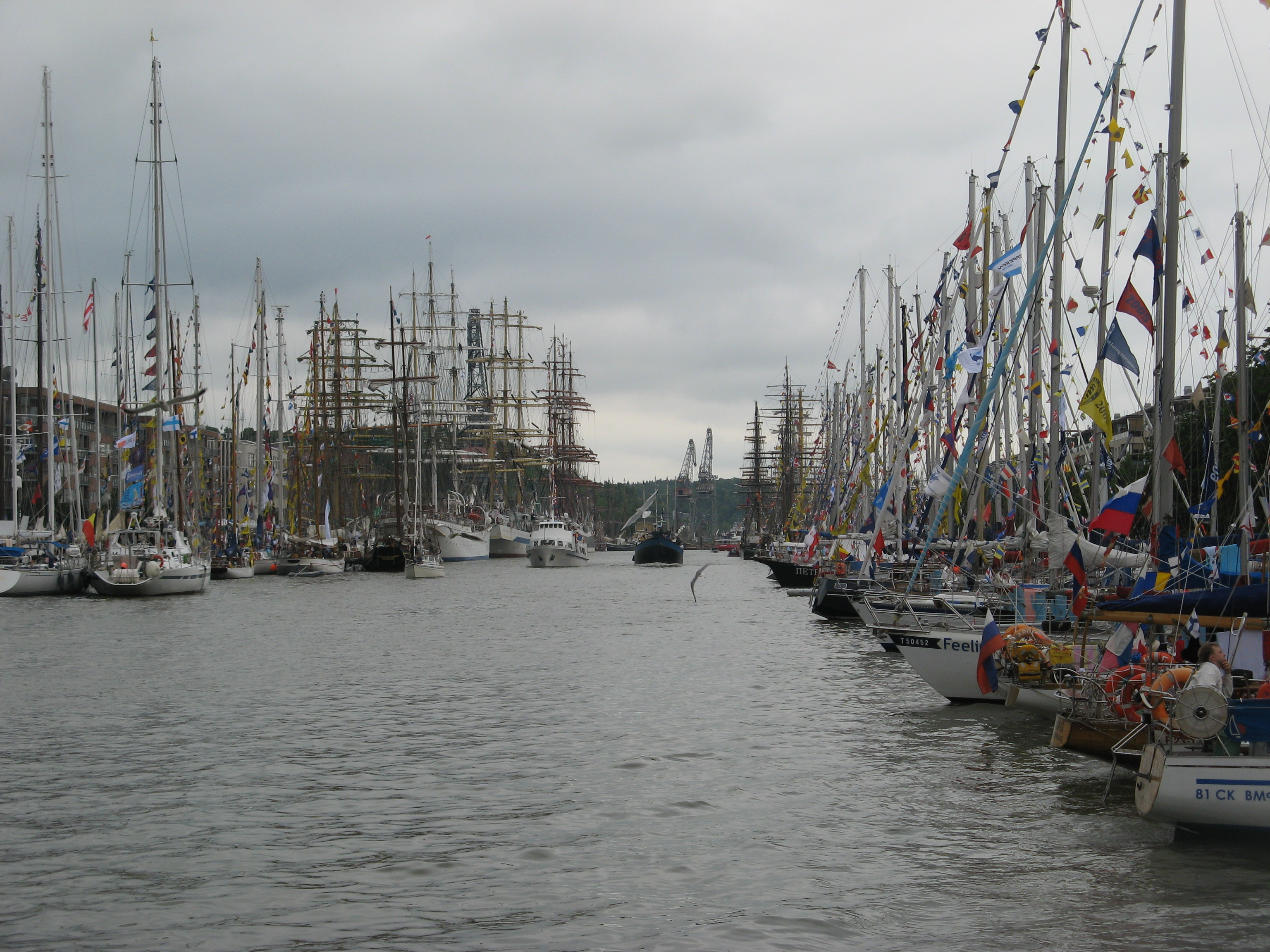 The mouth of the river Aura when Turku was hosting Tall Ships' Races in 2009. The big ships to the left are Statsraad Lehmkuhl, Mir and Sedov. Cranes of the former shipyard in the background.